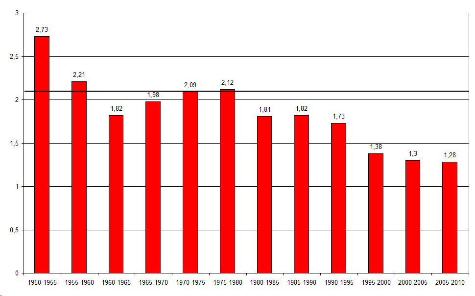 Hungary's total fertility rate (TFR) (1950-2010).